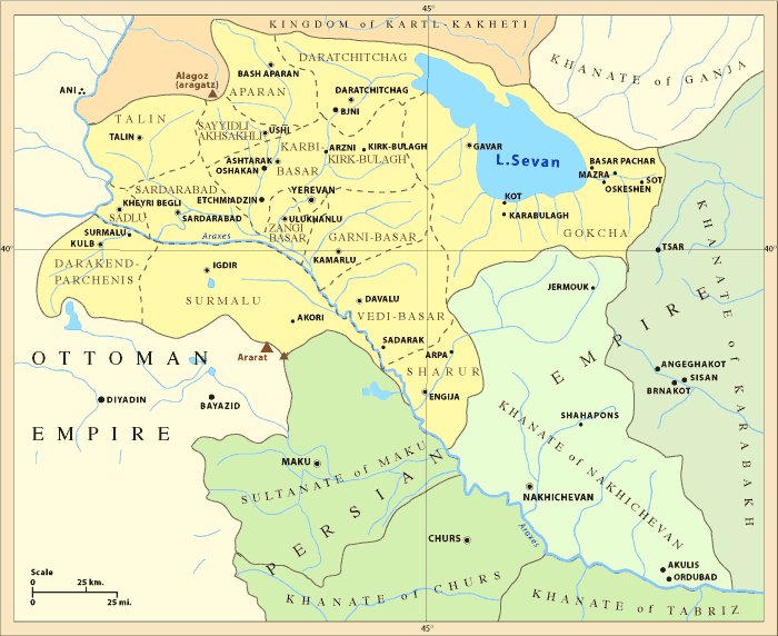 The Khanate of Yerevan, c. 1800.